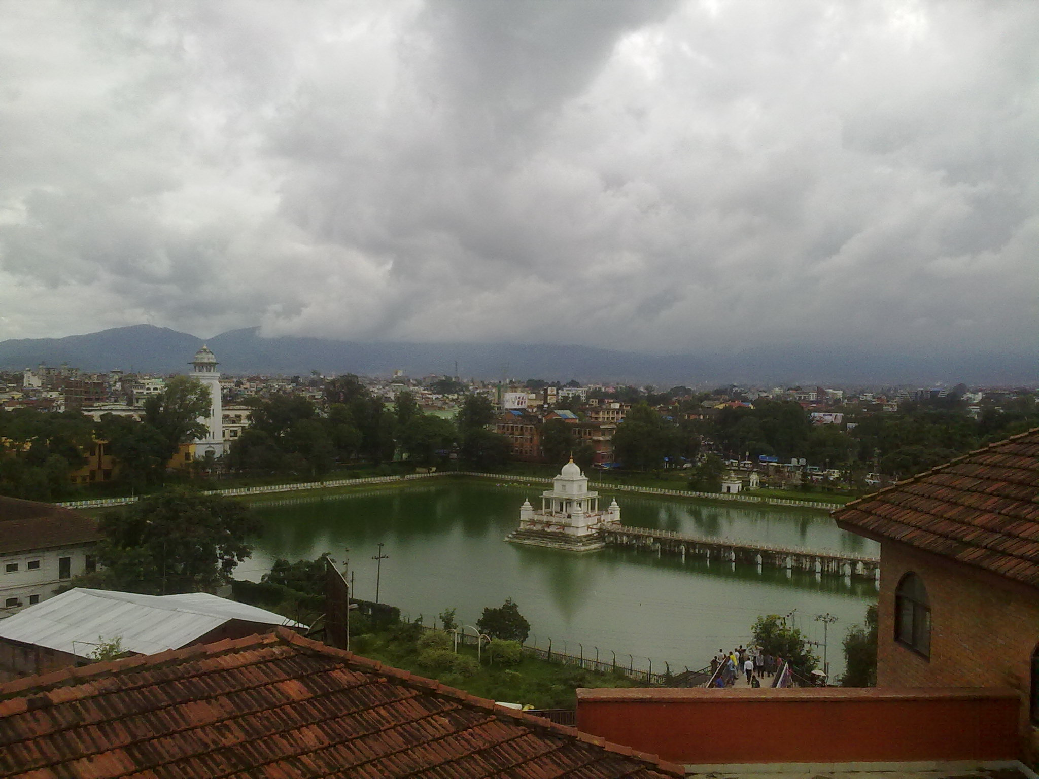 Rani Pokhari